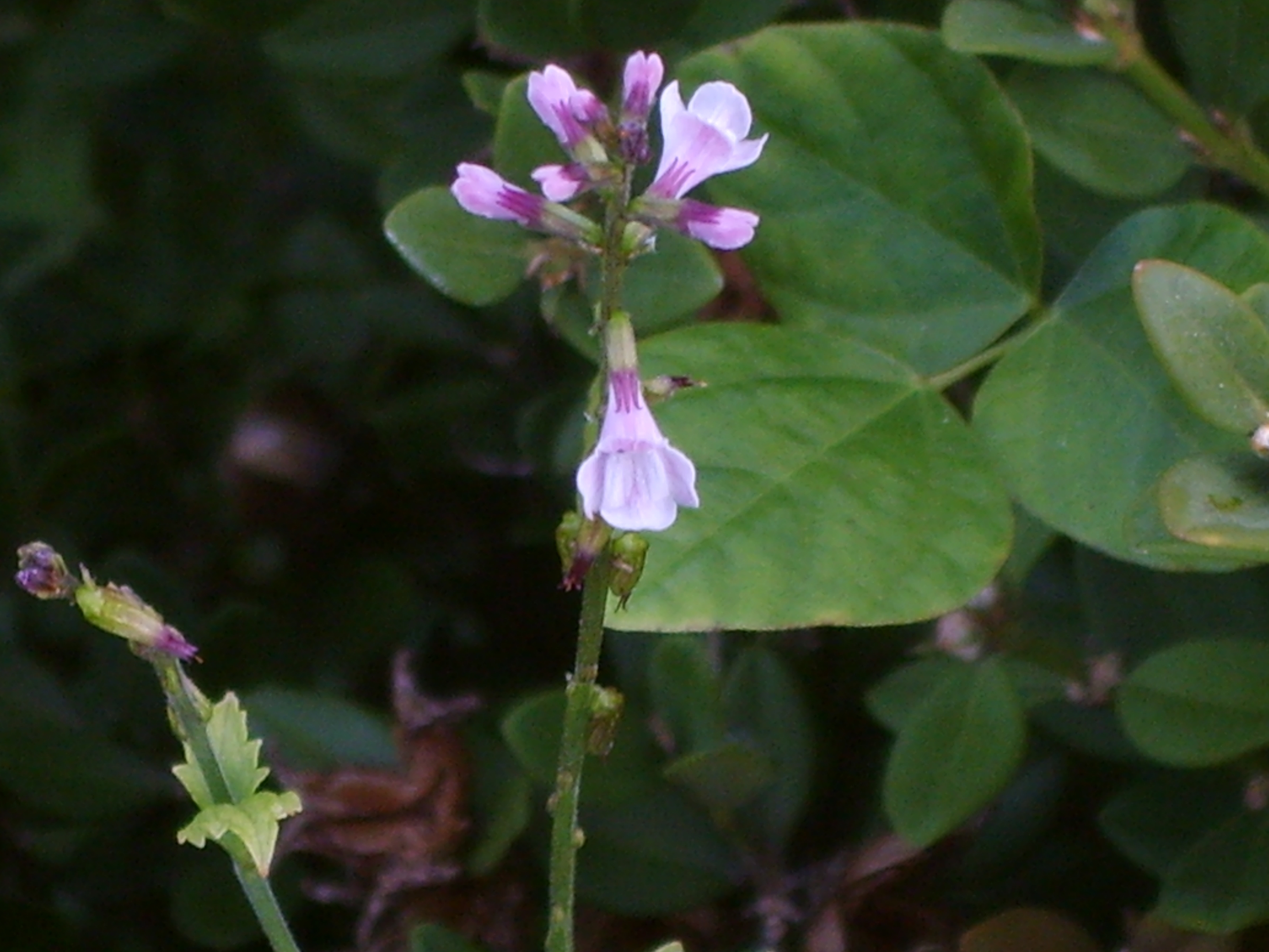 Phryma leptostachya var. asiatica